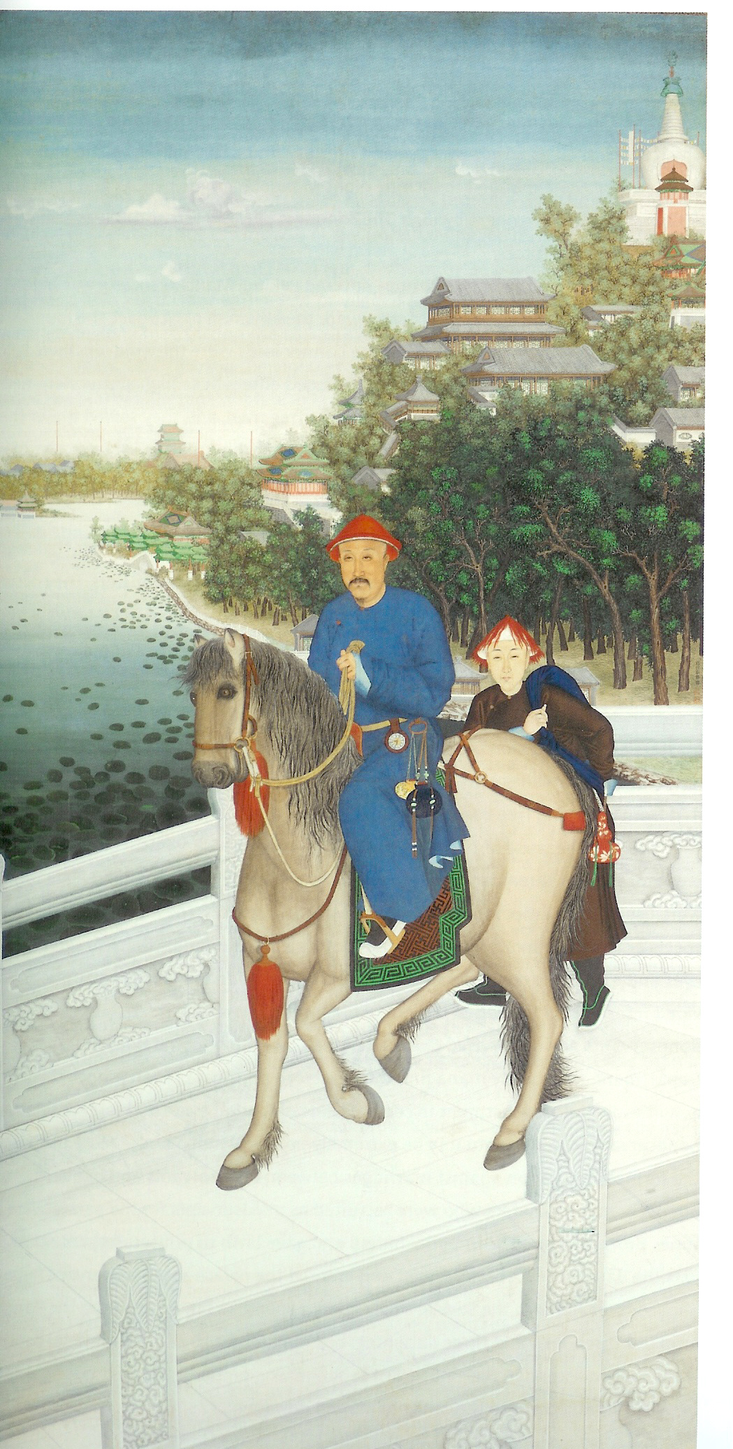 The Qianlong Emperor riding